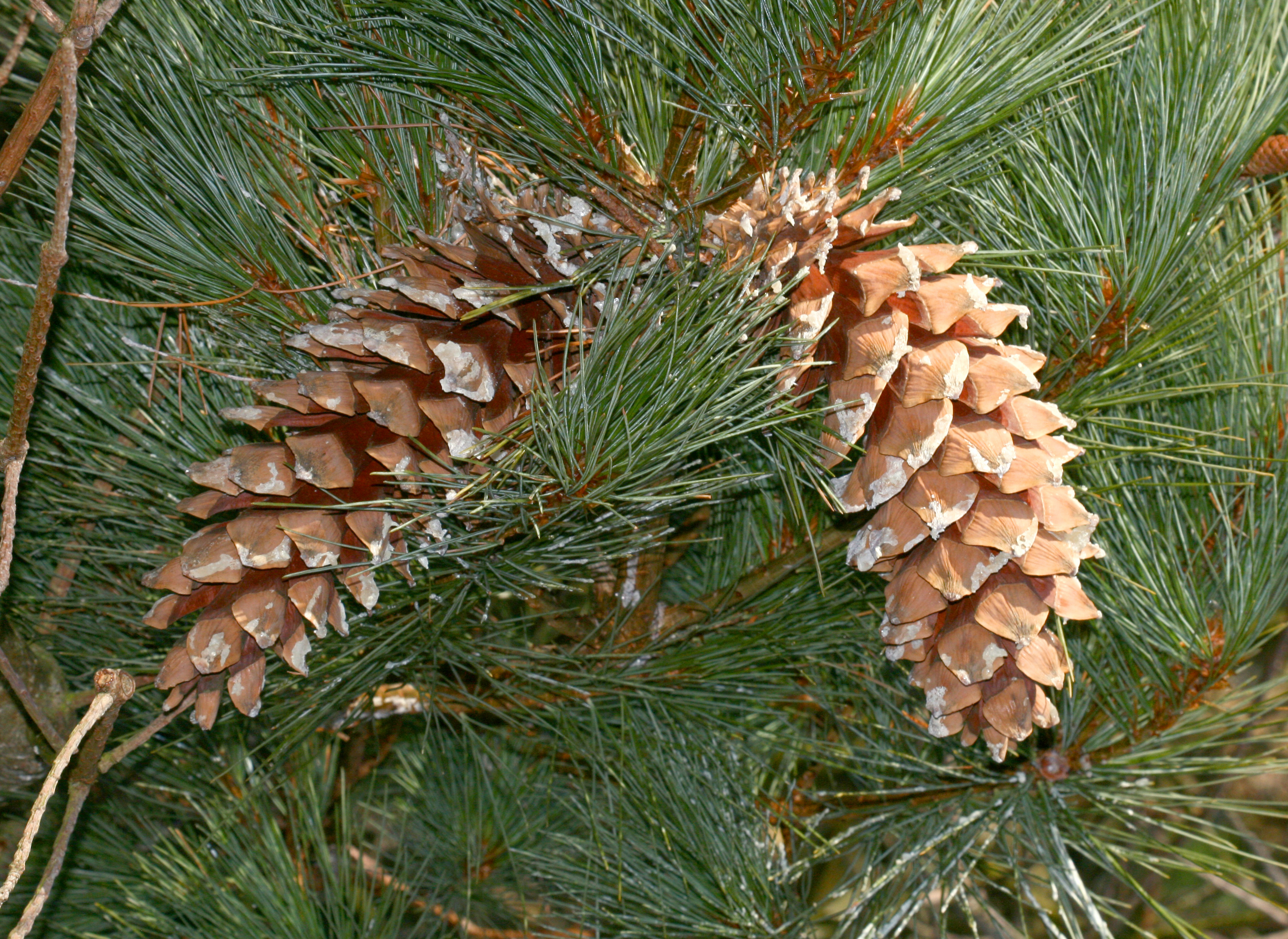 Cultivated Pinus ayacahuite, Saltoun Wood, East Lothian, Scotland.